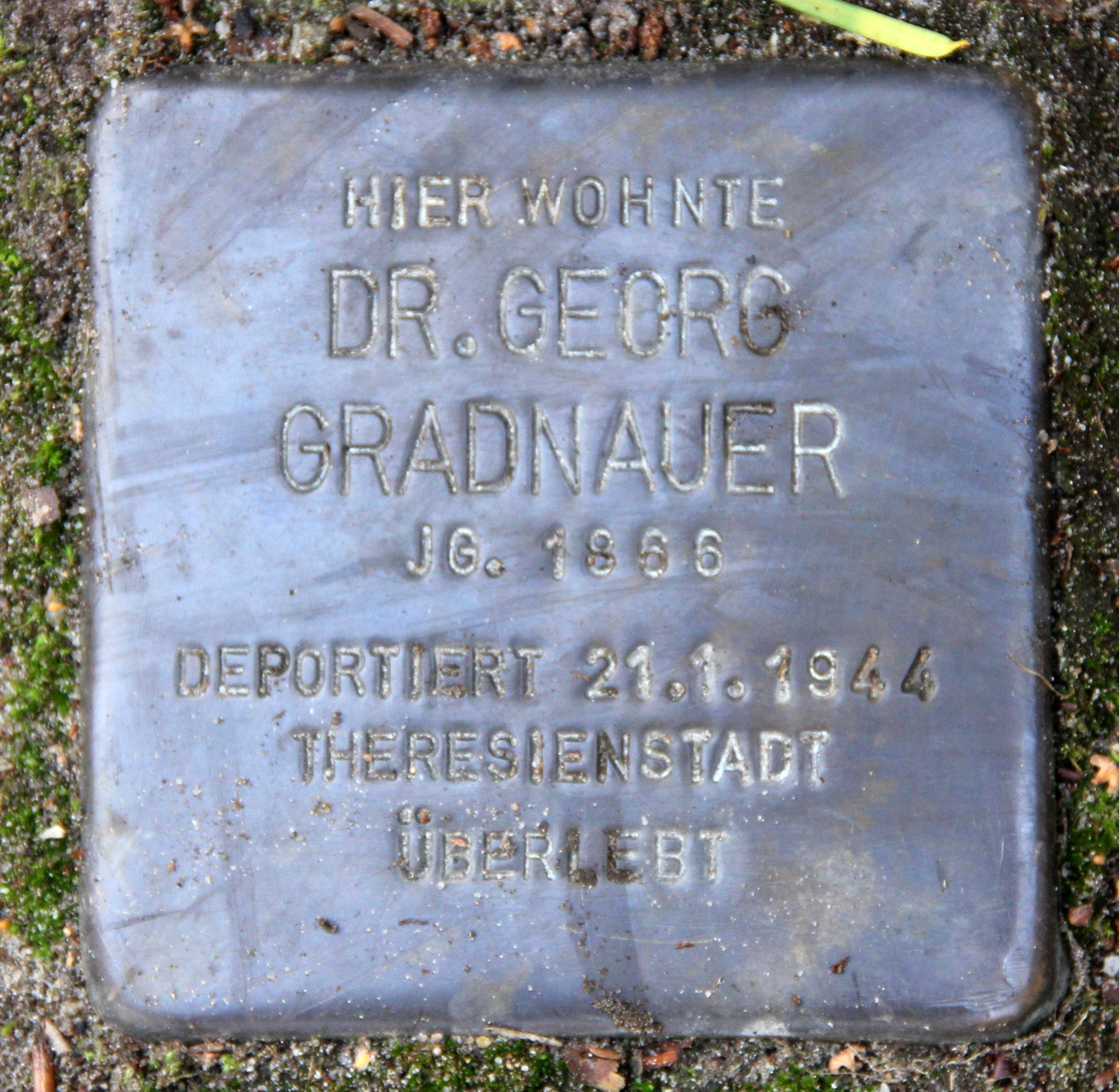 "Stolperstein" (stumbling block), Georg Gradnauer, Wendenmarken 108, Kleinmachnow, Germany